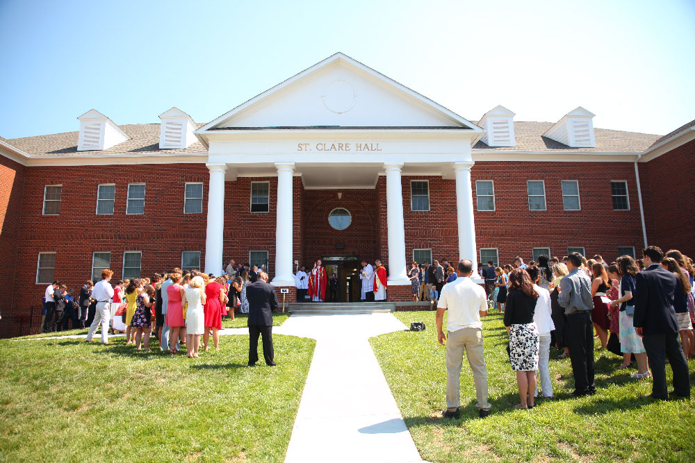 St. Clare's Residence Hall is Christendom's newest, and was opened in 2017.